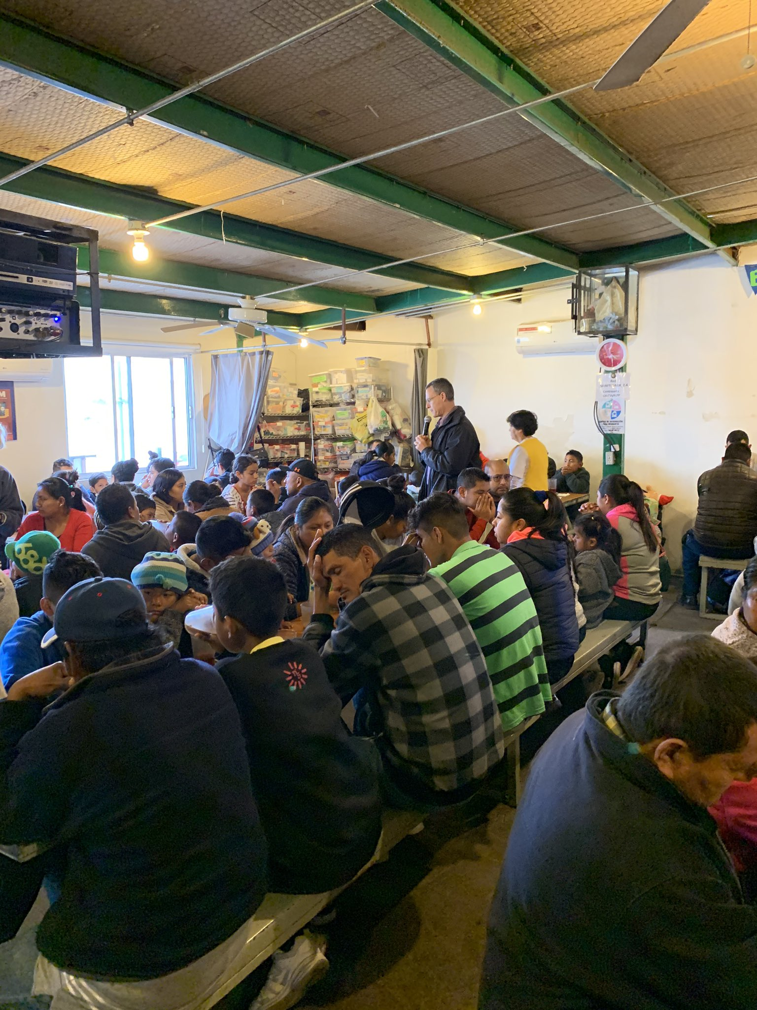 Mutiny of Kino Border Initiative